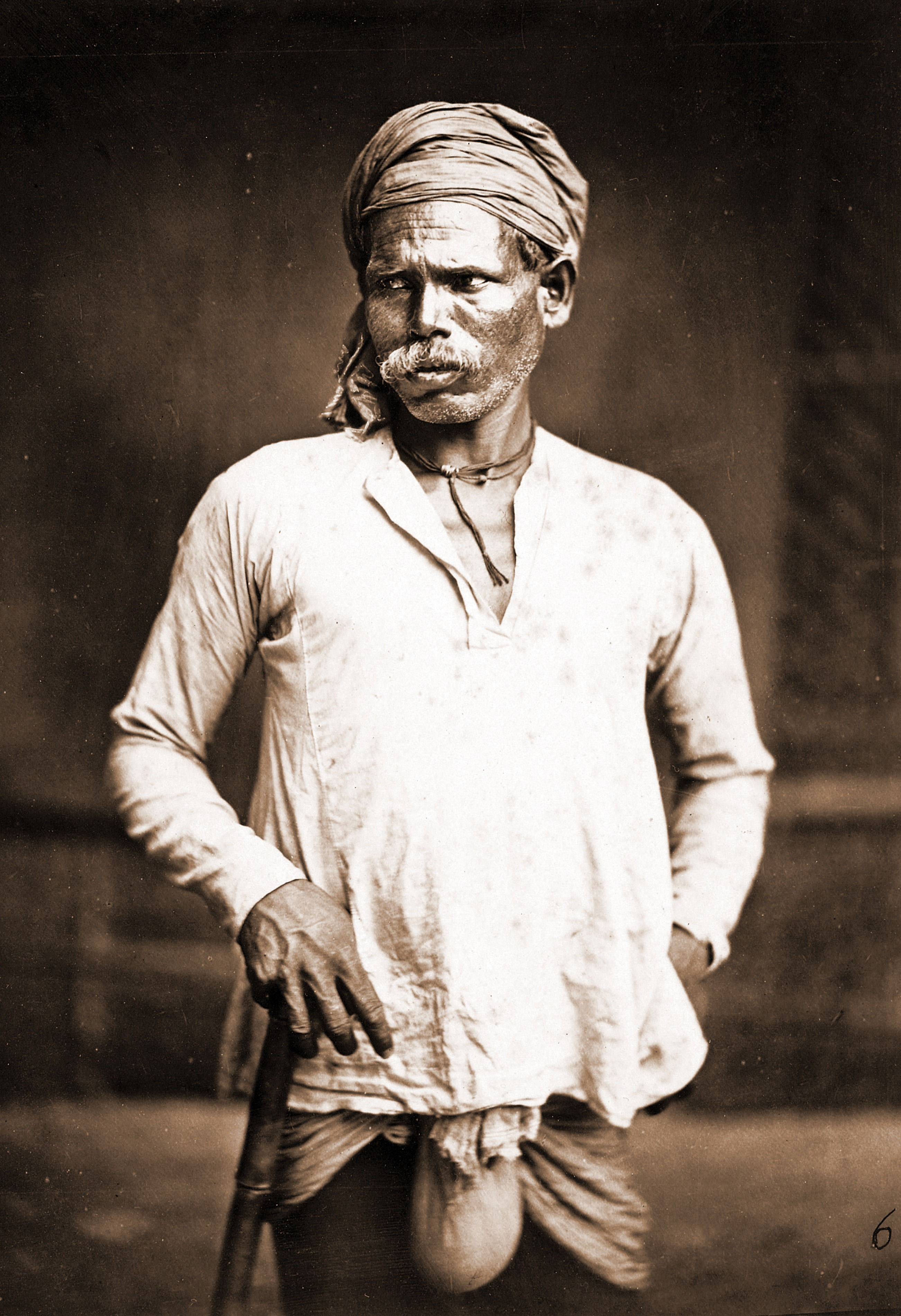 Portrait of a Dom man